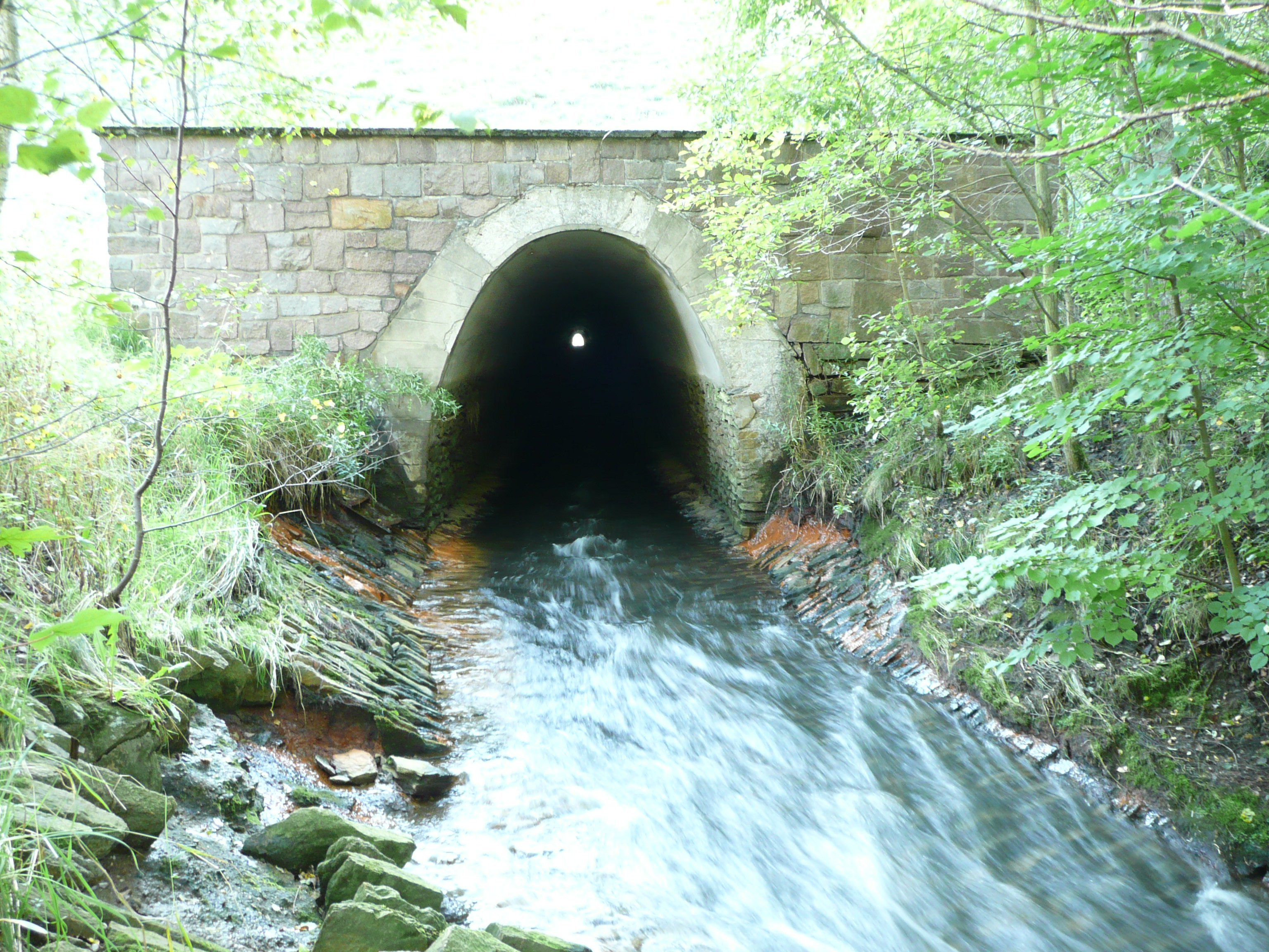 View into the cased section of the Münzbach near Halsbrücke